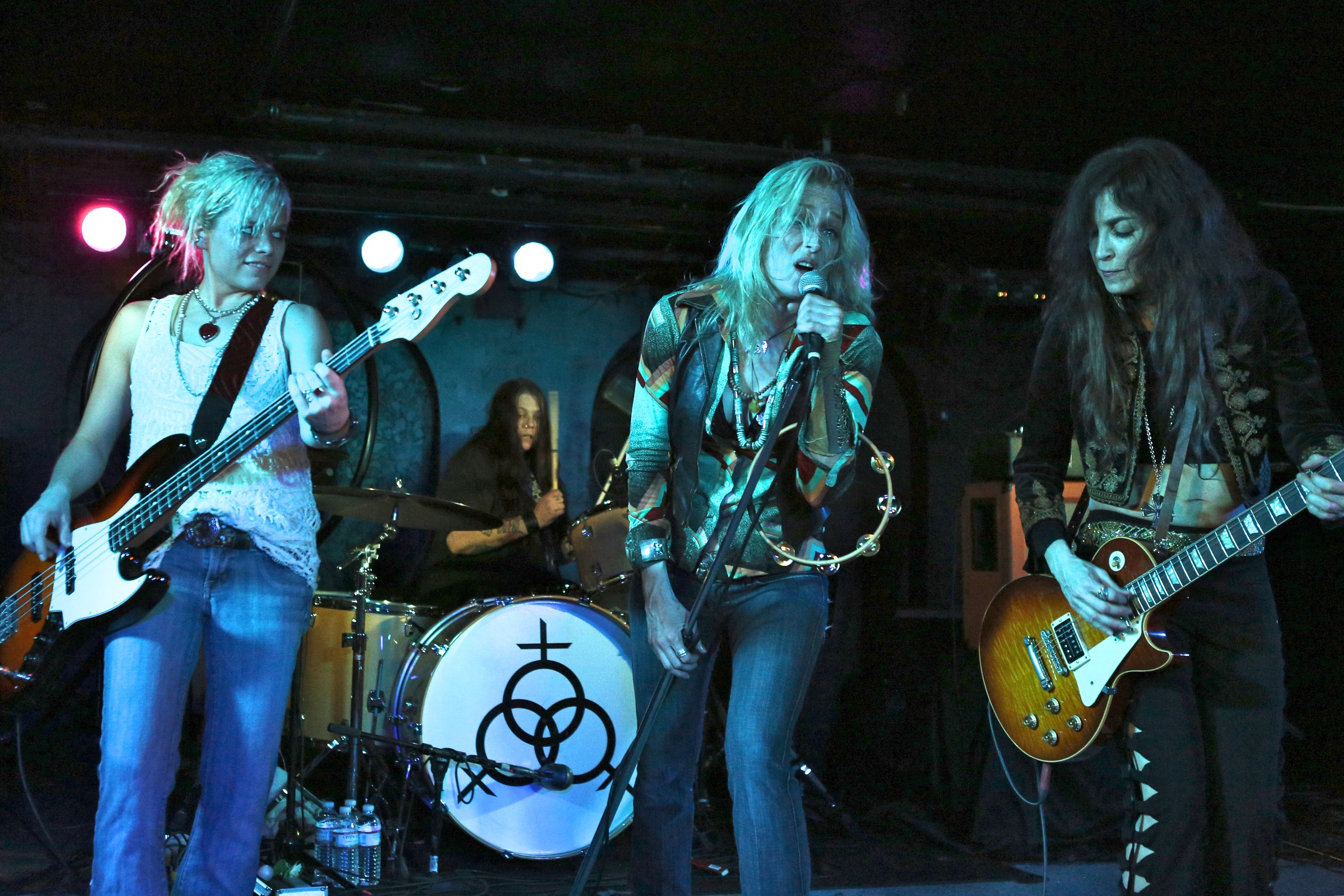 Lez Zeppelin, downstairs at the Middle East in Cambridge, MA.